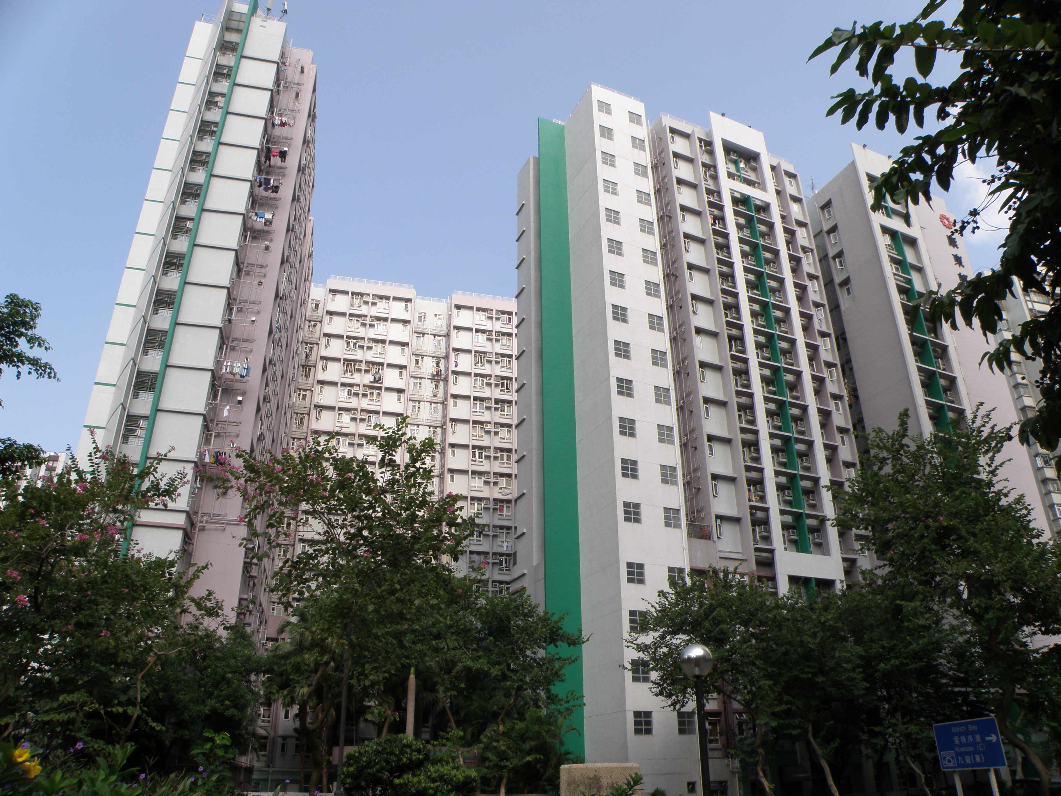 Hong Tung Estate in Sai Wan Ho, Hong Kong.